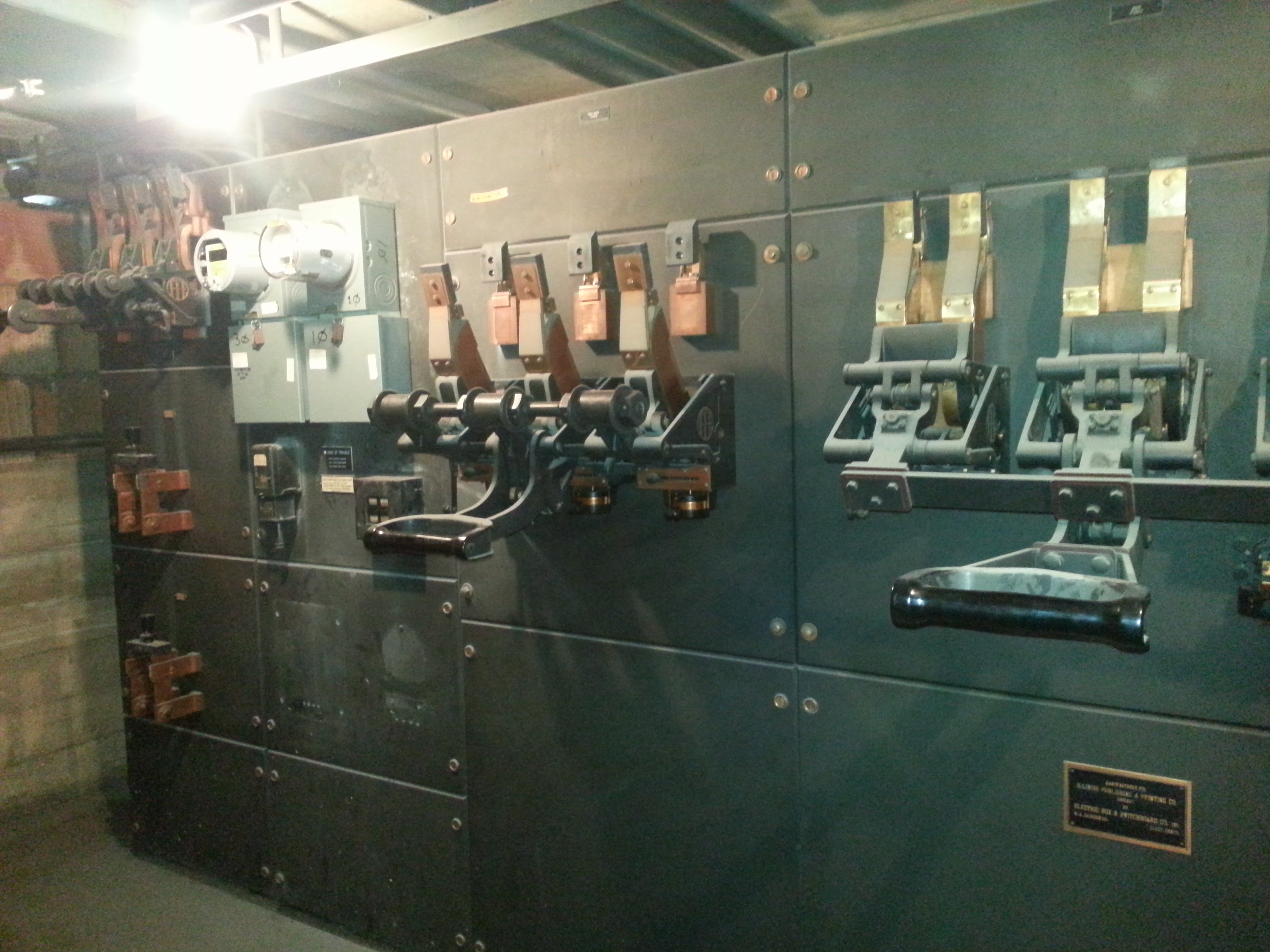 This is an antique electrical switchboard, operational at a Chicago plant as of 9/1/2014. It features open style breakers, mounted on slabs of slate stone insulator.